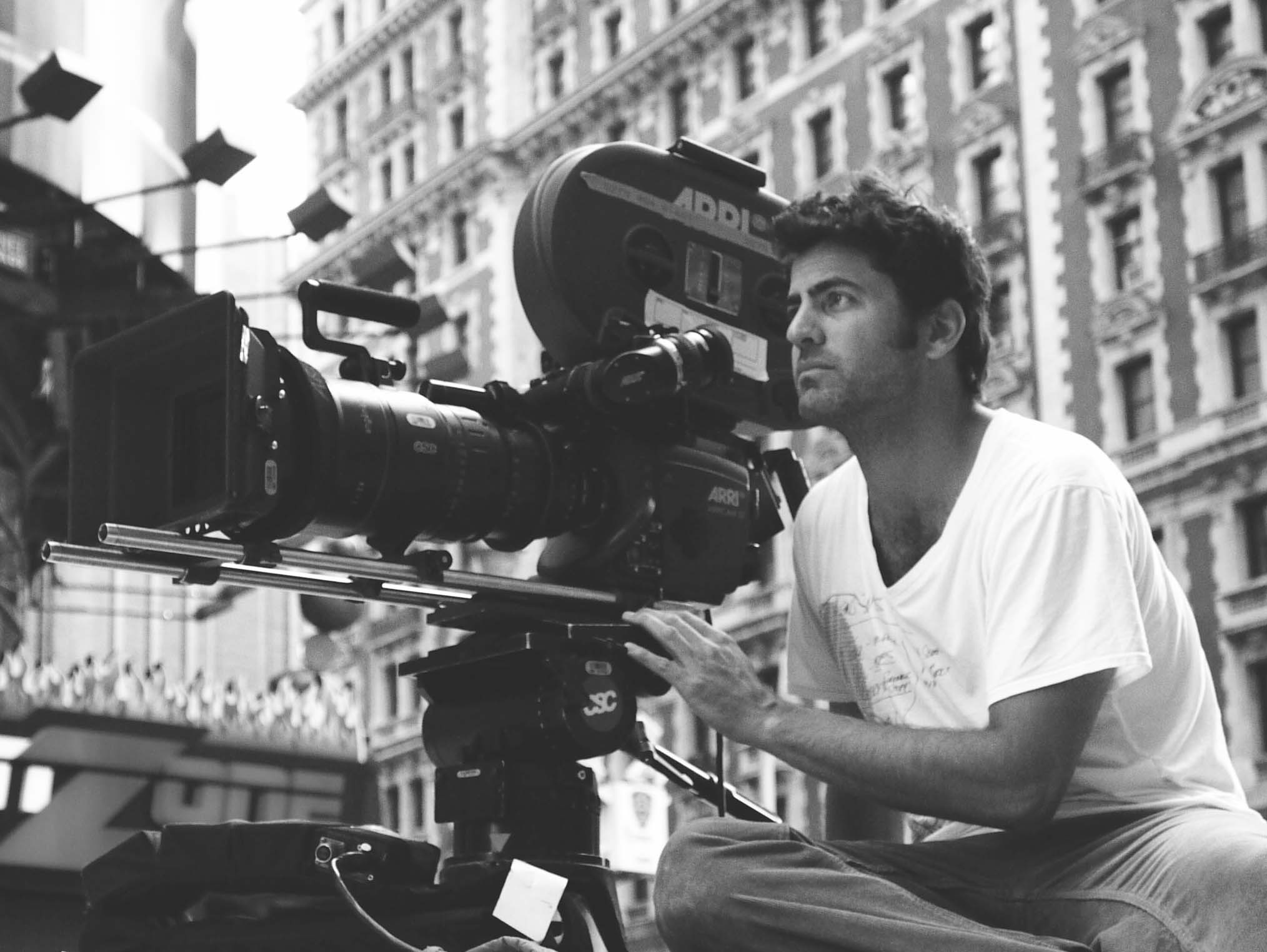 David M Rosenthal on location in New York City